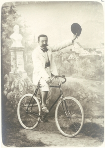 Walery Cyryl Amrogowicz, polish philantropist and regionalist